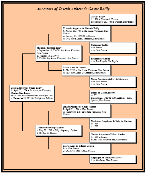 Ancestors of Joseph Bailly (Created in Family Tree Maker)